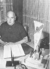 Former River Plate president Antonio Vespucio Liberti